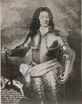 Portrait of Reinhold Johan von Fersen (1646-1716)